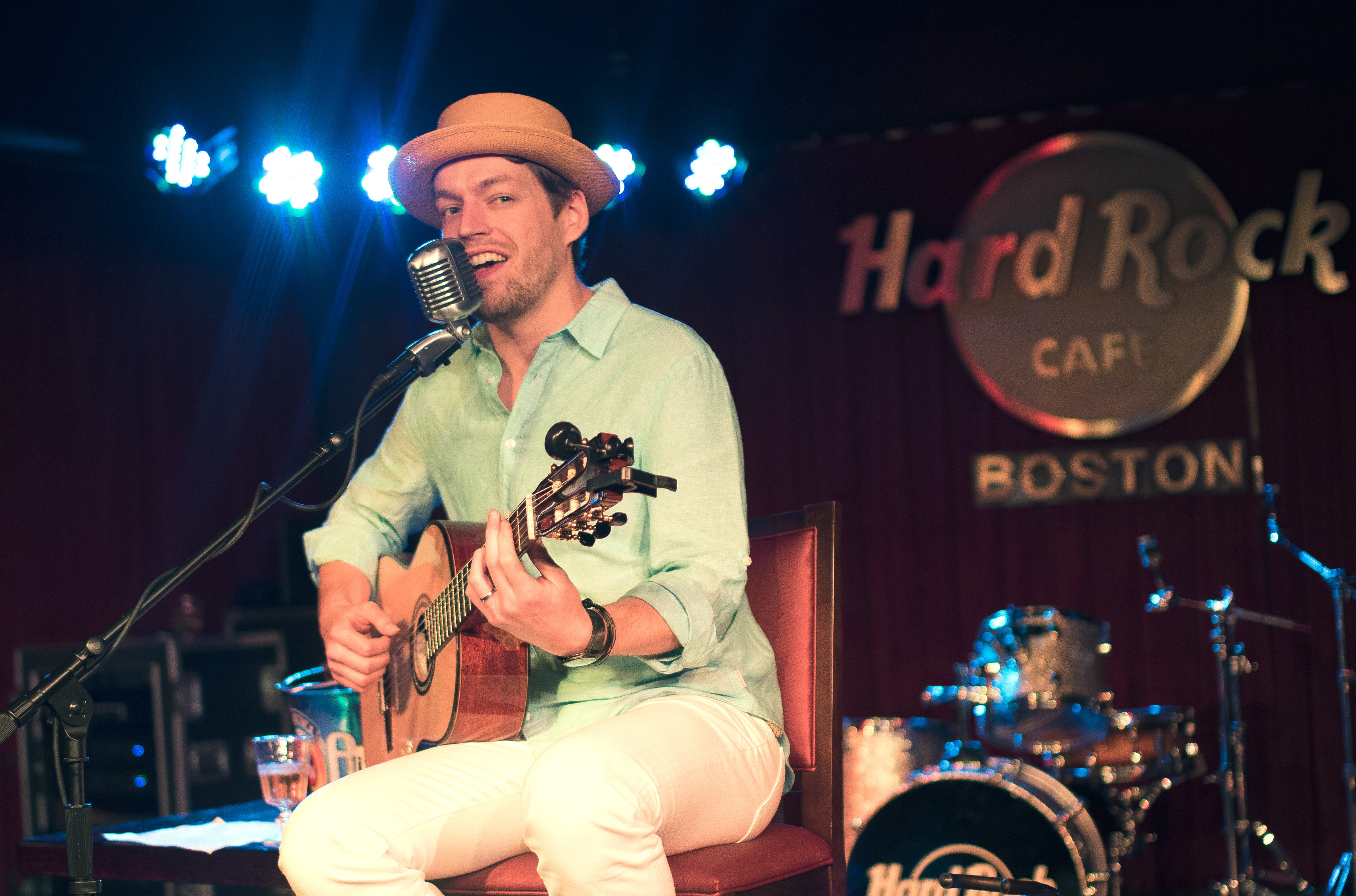 Joe Nicholson playing at Hard Rock Cafe